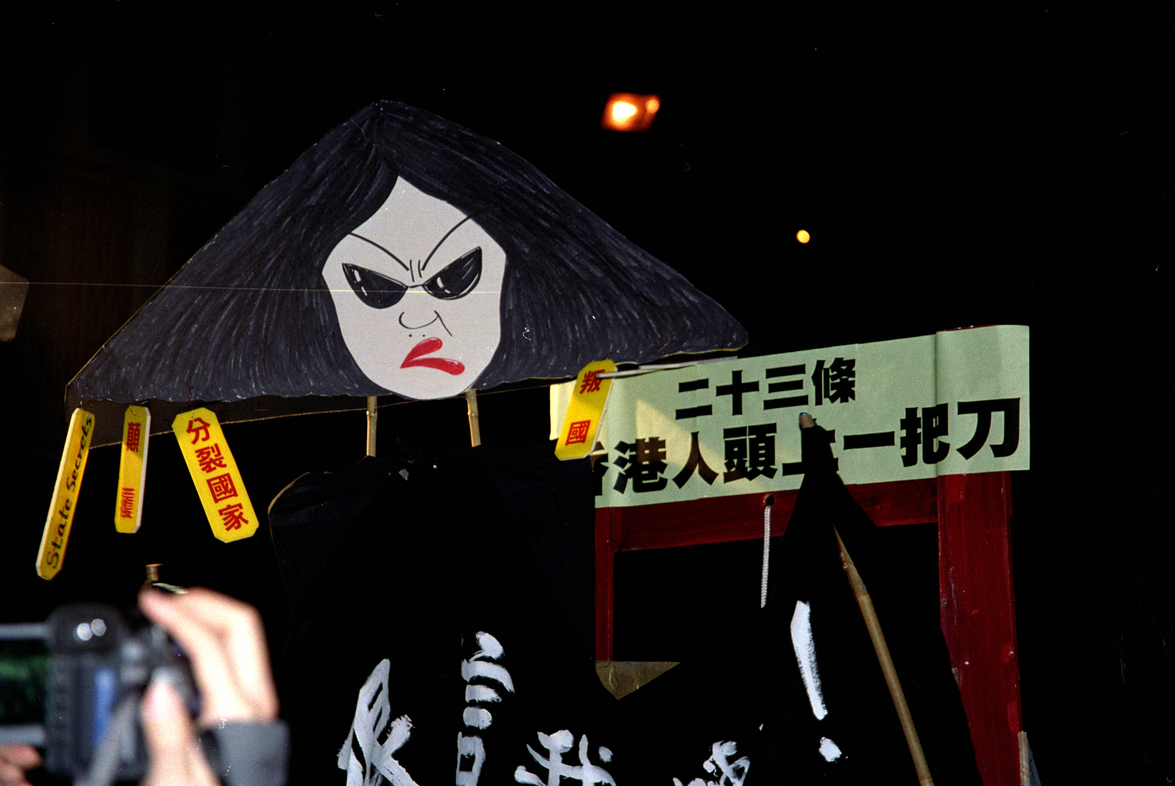 Props being used in a protest in connection with the appearance of Regina Ip. Slogan reads, Article 23: The knife has been above Hong Kong people's head